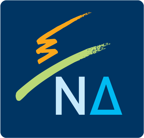 The logo of New Democracy (party intials)